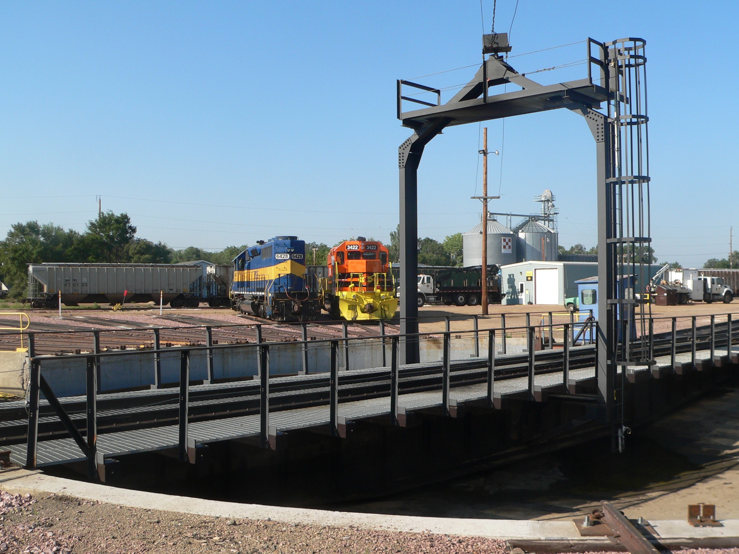 Chicago and Northwestern roundhouse in Huron, South Dakota.